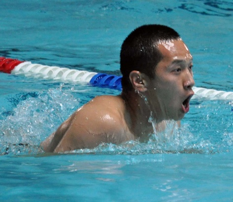 A swimmer at the Camp Humphreys Super Gym pool.